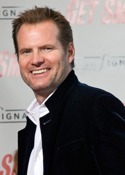 American actor Jack Coleman arrives at the Get Smart premiere, Fox Theater, Westwood, CA.